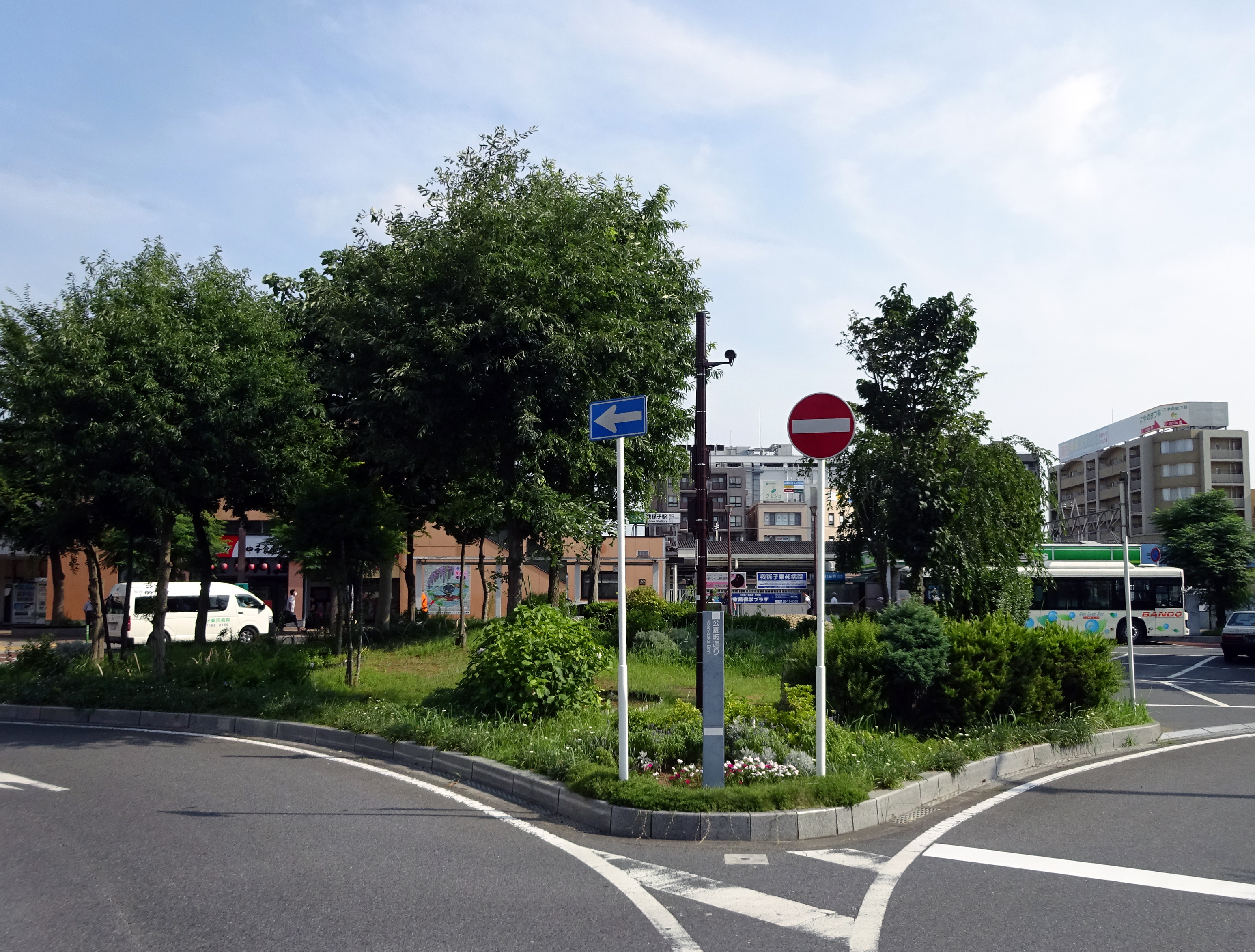 South entrance of Abiko Station (Chiba)